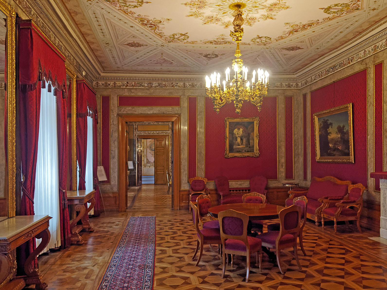 Red Salon of the City Residence of the Duchy of Nassau in Wiesbaden. Today: State Parliament of Hesse, Germany.